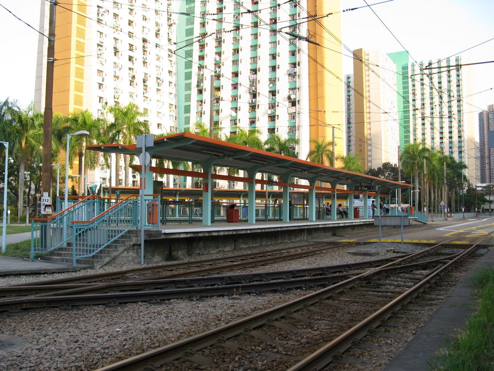 輕鐵 大興北站 Tai Hing North Stop, Light Rail